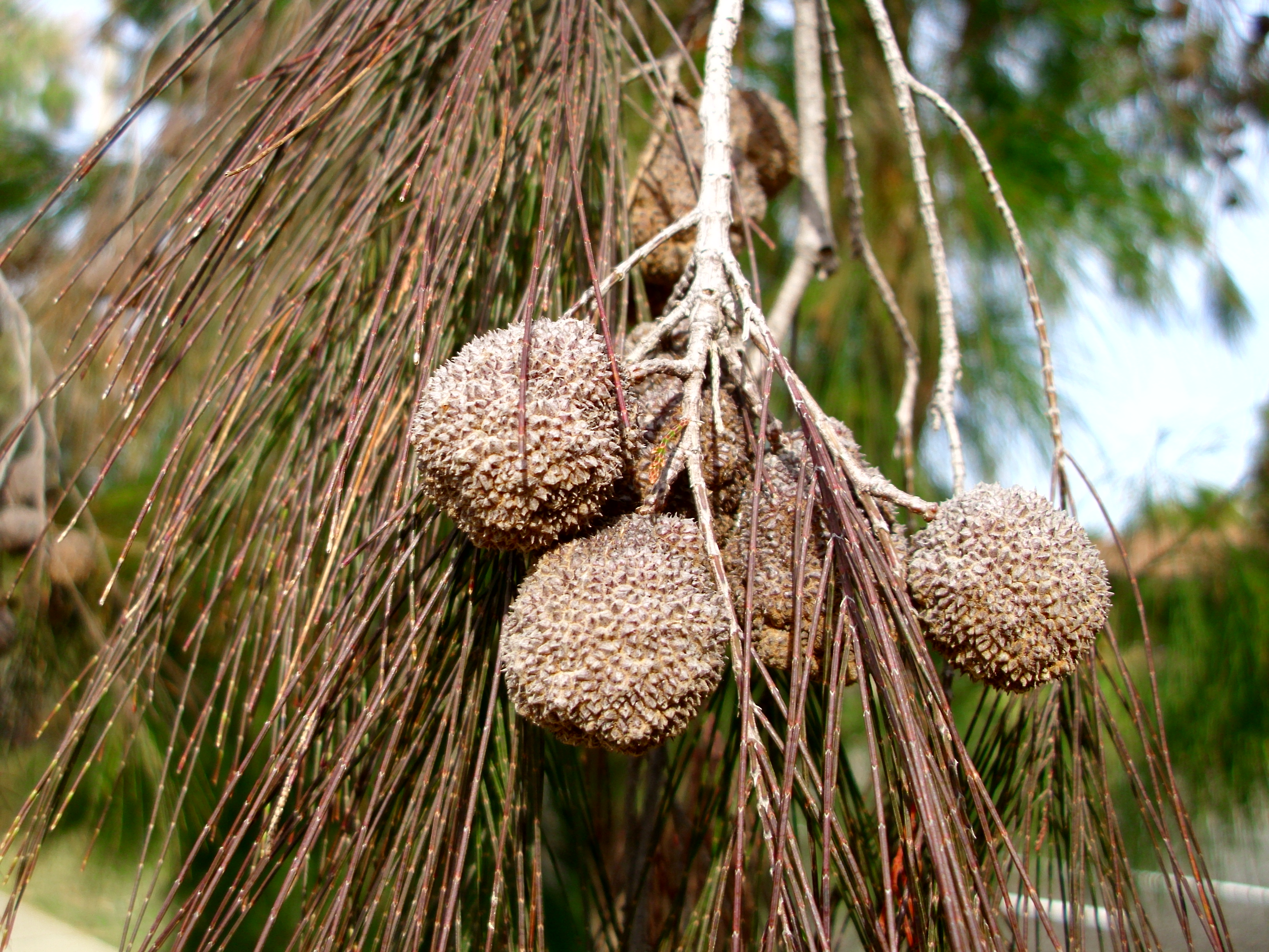 Allocasurina torulosa fruit, photographed long Dalman Parkway in the Wagga Wagga suburb of Glenfield Park.